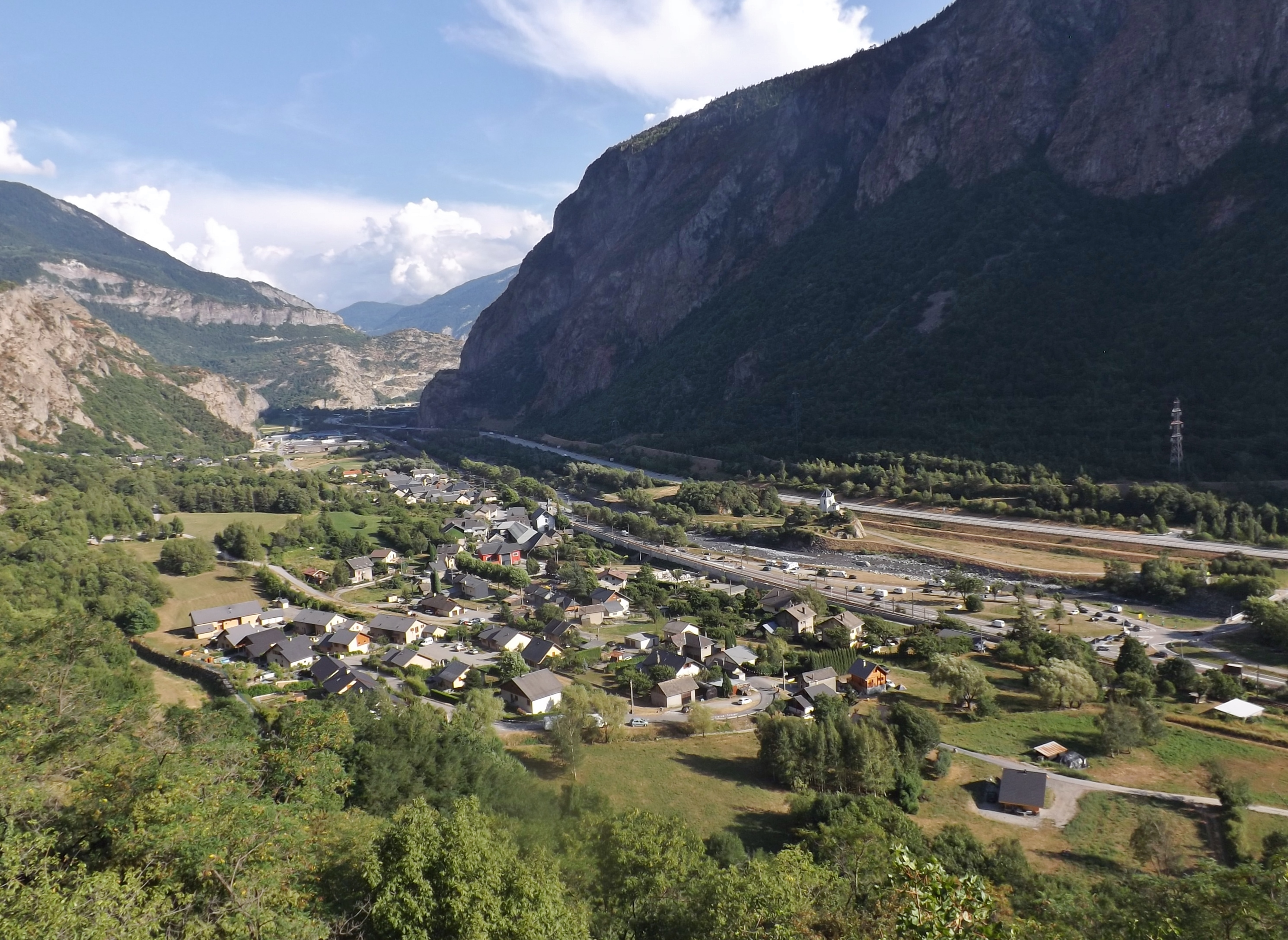 Panoramic sight, from the lacets de Montvernier road bends, of Pontamafrey village in the Maurienne valley, Savoie, France.